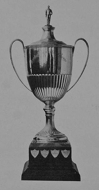 Tie Cup Competition trophy, donated by Francis Hepburn Chevallier Boutell, the president of Argentine Association Football League, in 1900. The tournament was played on an annual basis until 1919.